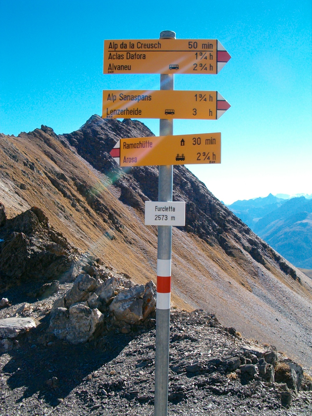 sign post on Furcletta Pass between Arosa and Alvaneu in Switzerland